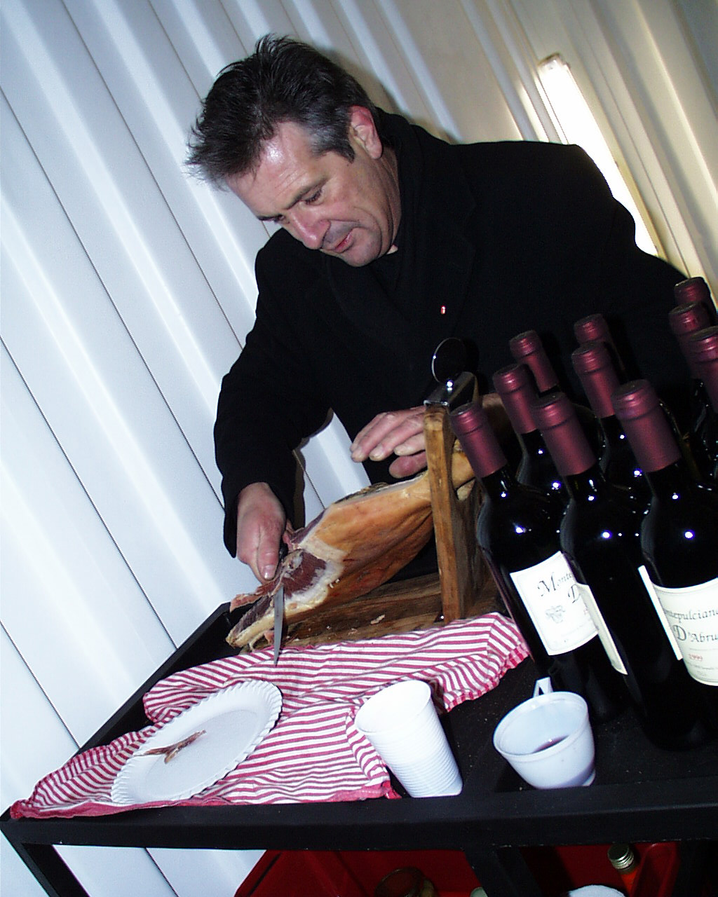 "Res Ingold mit Wirkstoffen" (Res Ingold, artist and CEO of ingold airlines)